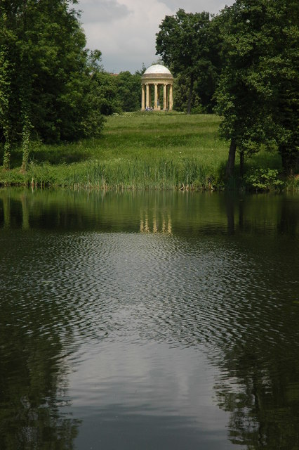 The Rotunda, Stowe Landscape Gardens